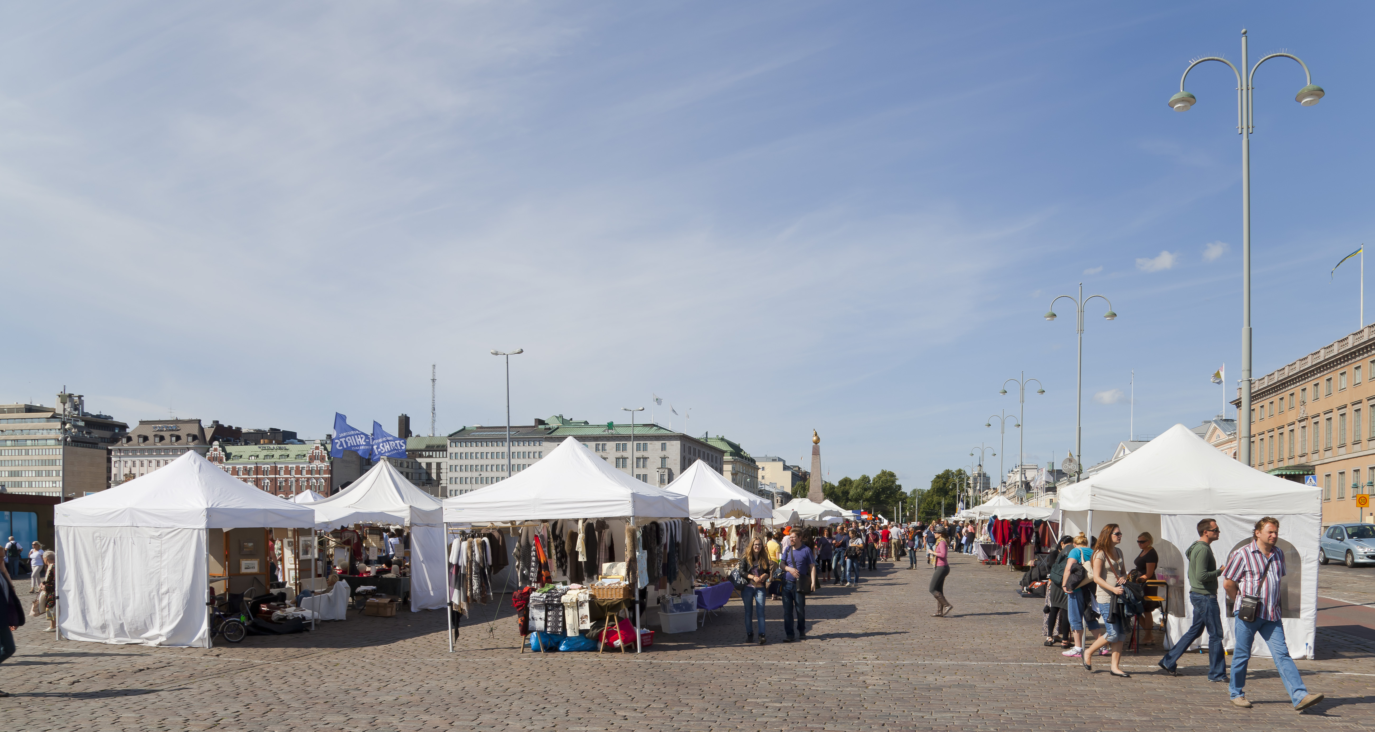 South Harbour, Helsinki, Finnland